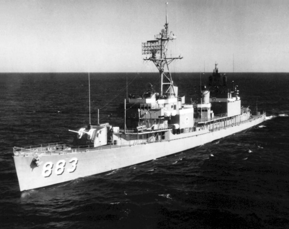 The U.S. Navy Gearing-class destroyer USS Newman K. Perry (DD-883) underway in the 1960s.